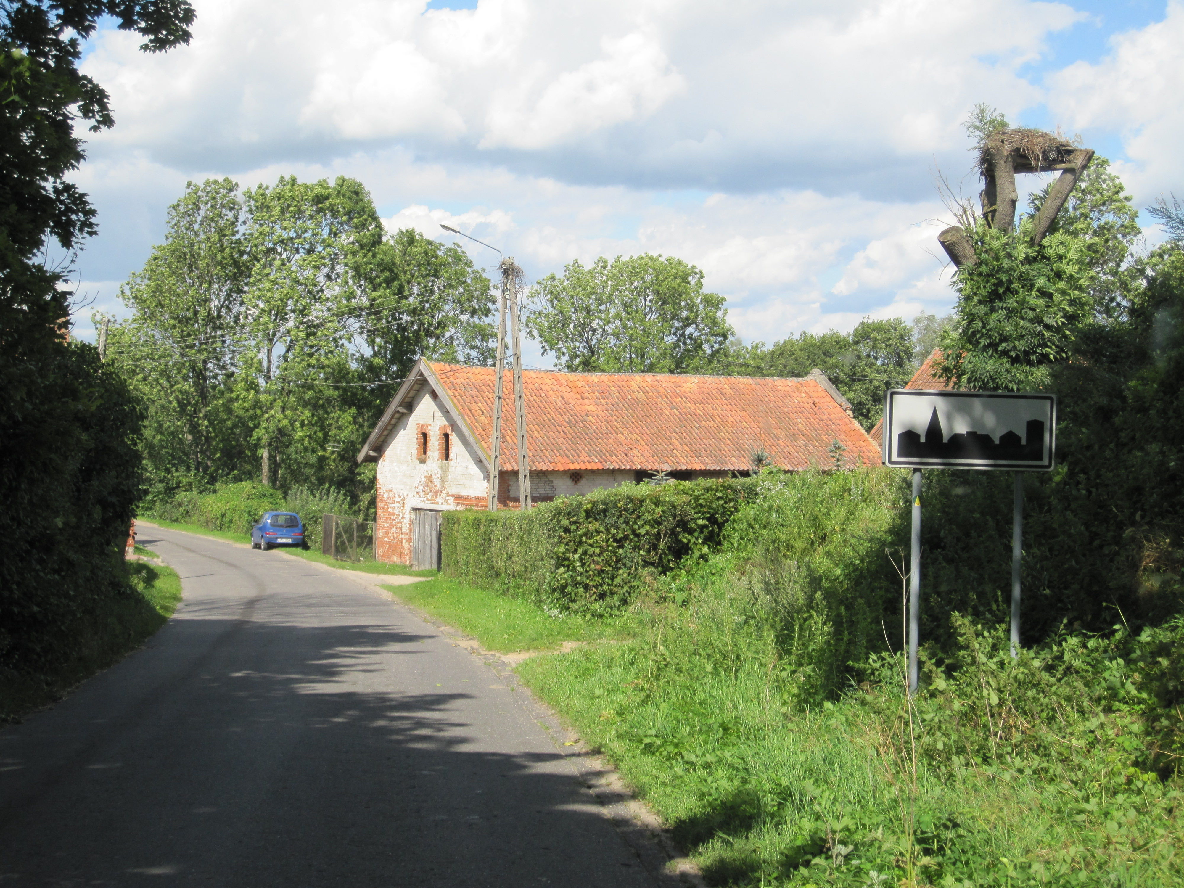 Probark - building